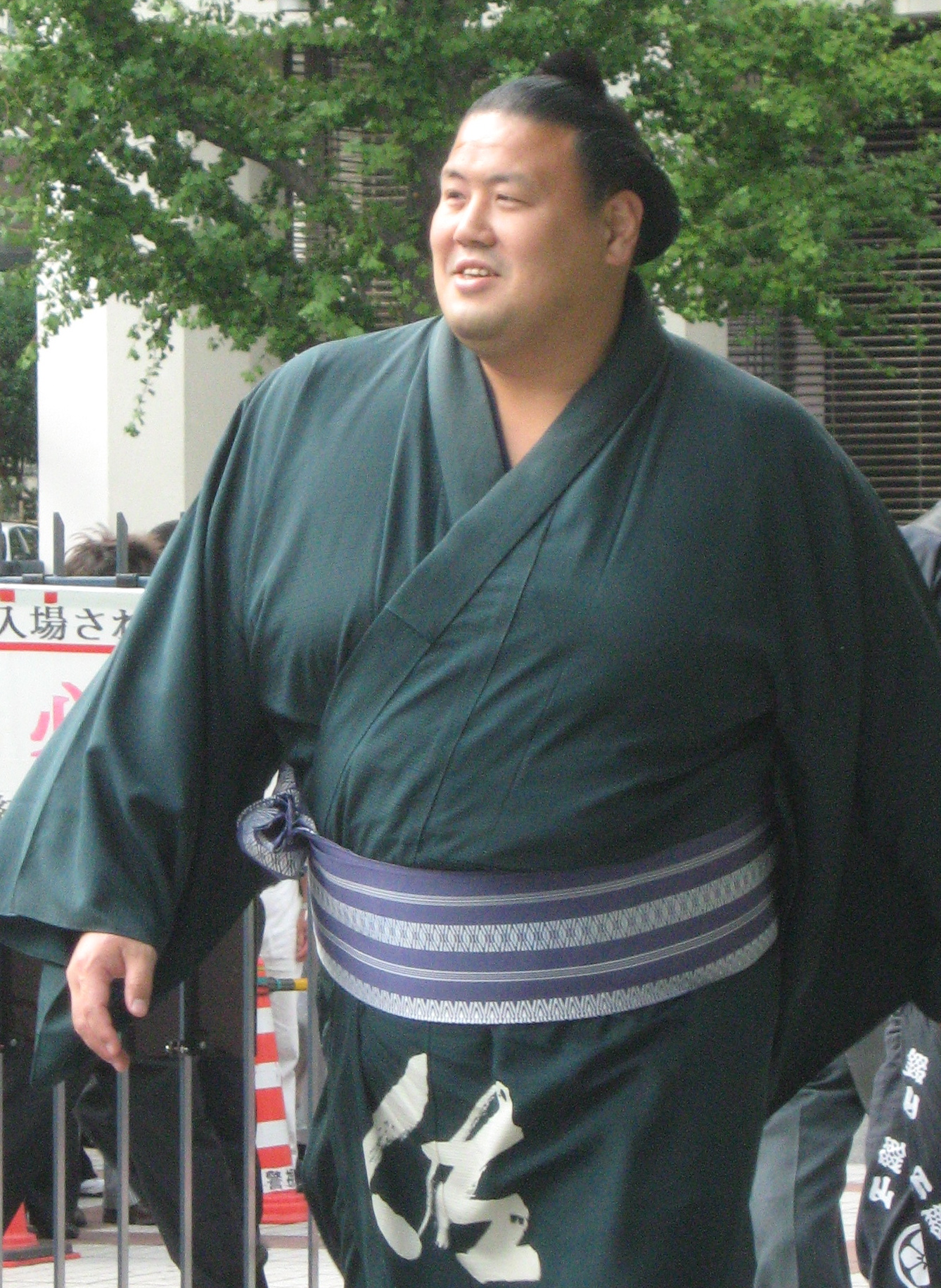 Picture taken at Sep 2008 tournament